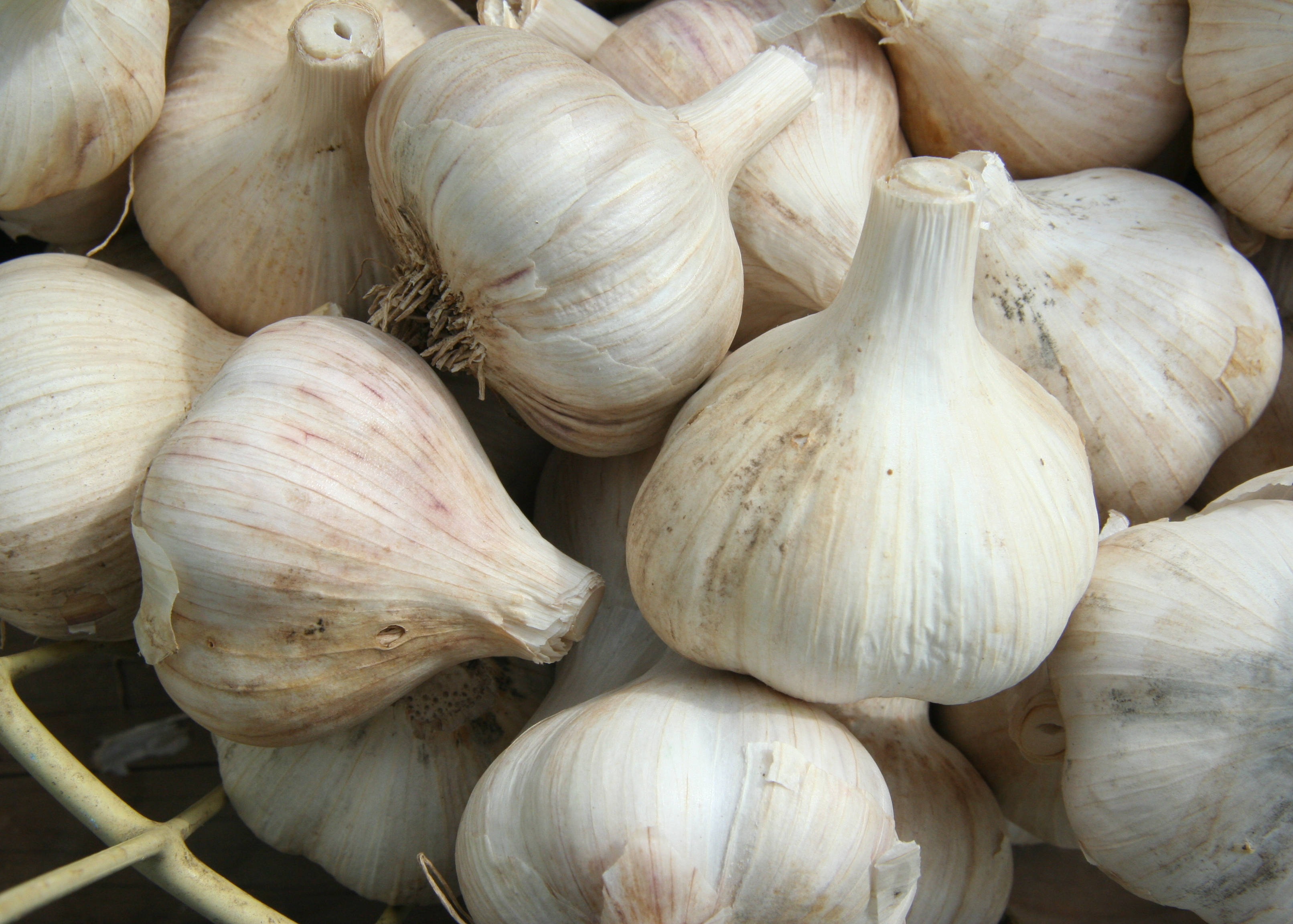 A basket of garlic (allium sativum) offered for sale at the farmers' market in Rochester, Minnesota